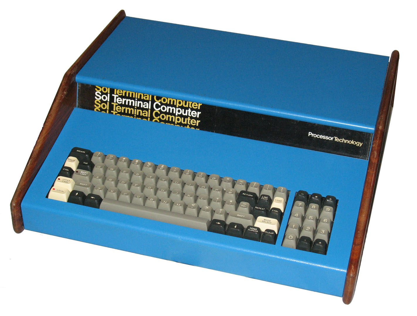 Processor Technology SOL-20 Computer. The prototype appeared on the July 1976 cover of Popular Electronics magazine. The computer had an 8080 microprocessor, a 64 character by 16 line video display, and could store data on audio cassettes. They typically had 8K to 64K of RAM. A popular option was the NorthStar 5 1/4 inch floppy disk system. The side panels were solid walnut. The December 1976 price for a SOL-20 kit with 2K of RAM was $995. Lee Felsenstein was the principal designer of the SOL-20. Robert M. Marsh; Lee Felsenstein (July 1976). "Build SOL, An Intelligent Computer Terminal". Popular Electronics 10 (1): 35-38. Ziff Davis. This SOL-20 was displayed by Jordan Ruderman at Vintage Computer Festival 9.0. Held at the Computer History Museum in Mountain View, California. November 4th and 5th, 2006. This SOL-20 won "Best in Show" at the Vintage Computer Festival 2.0 on Sunday, September 26, 1998. Photo by Michael Holley, November 2006 Taken with a Canon PowerShot A630 (1/60 second and F/3.5) using on camera flash. The background was removed using Adobe Photoshop Elements 3.0.